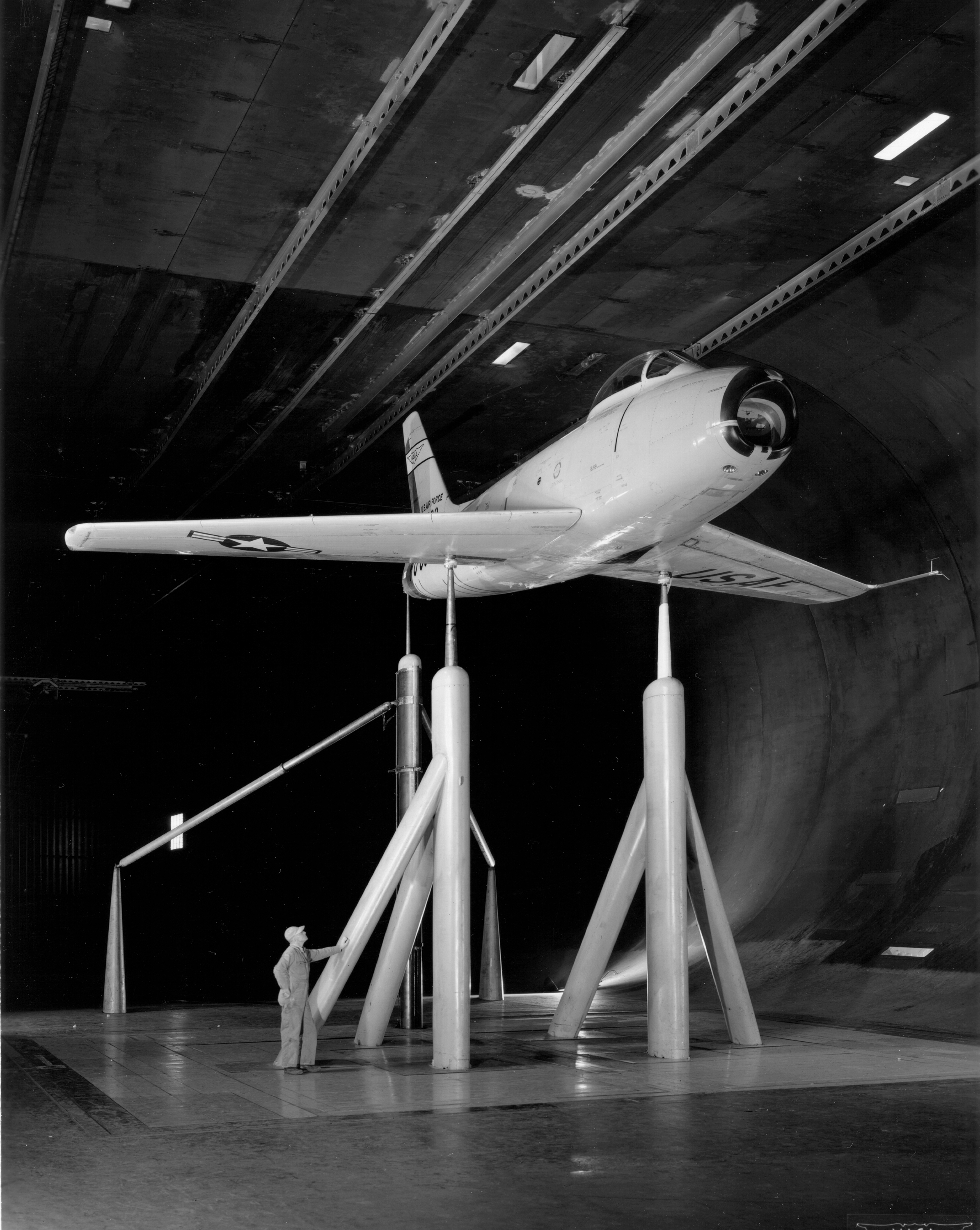 This North American Aviation P-86A-1-NA Sabre, Air Force serial number 47-609 (later redesignated F-86A), transferred to the National Advisory Committee on Aeronautics as NACA 135, is mounted in the 40 x 80 Foot (12.2 x 24.4 meter) Full Scale Wind Tunnel at the NACA Ames Aeronautical Laboratory, Moffett Field California.